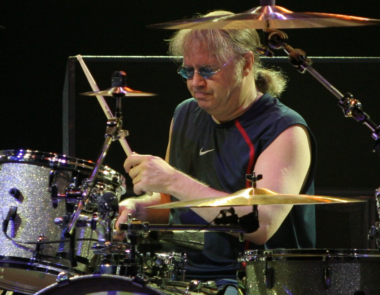 Ian Paice live in concert with Deep Purple at the Labatt Centre in London, Ontario, Canada